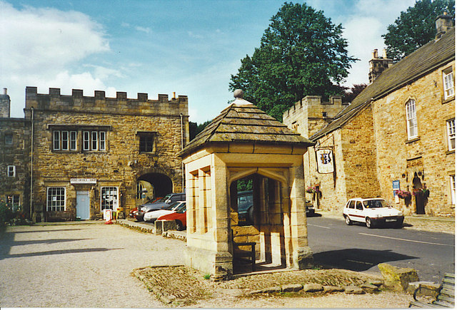 The Square, Blanchland. Blanchland takes its name from its former Premonstratensian abbey - the white friars. The square has a fortified character - for defence from Border rievers!